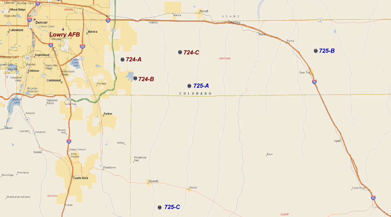 Lowry AFB Titan I ICBMs